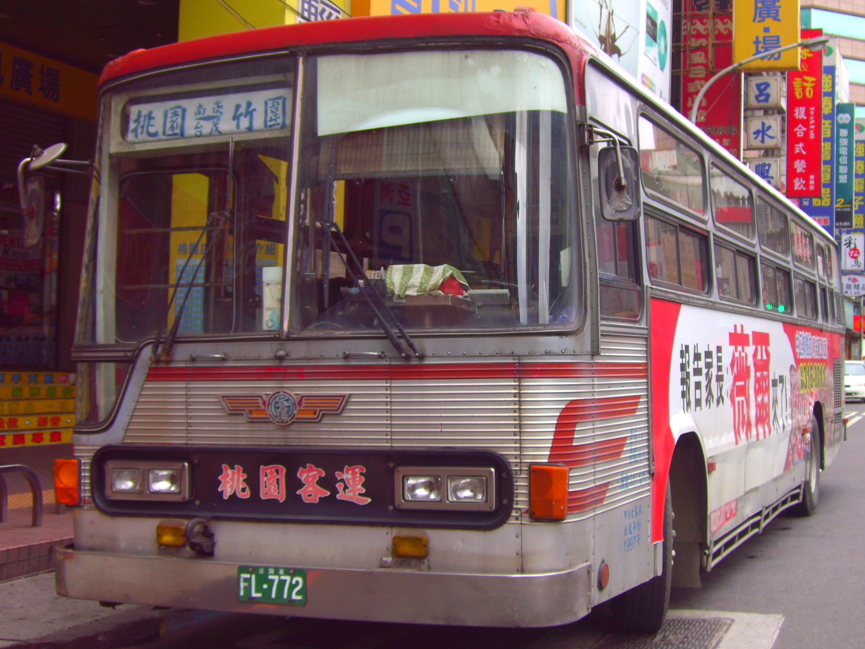 Taoyuan City Bus is operated with HINO LRK1MRA bus chassis by Taoyuan Bus Co.,Ltd.